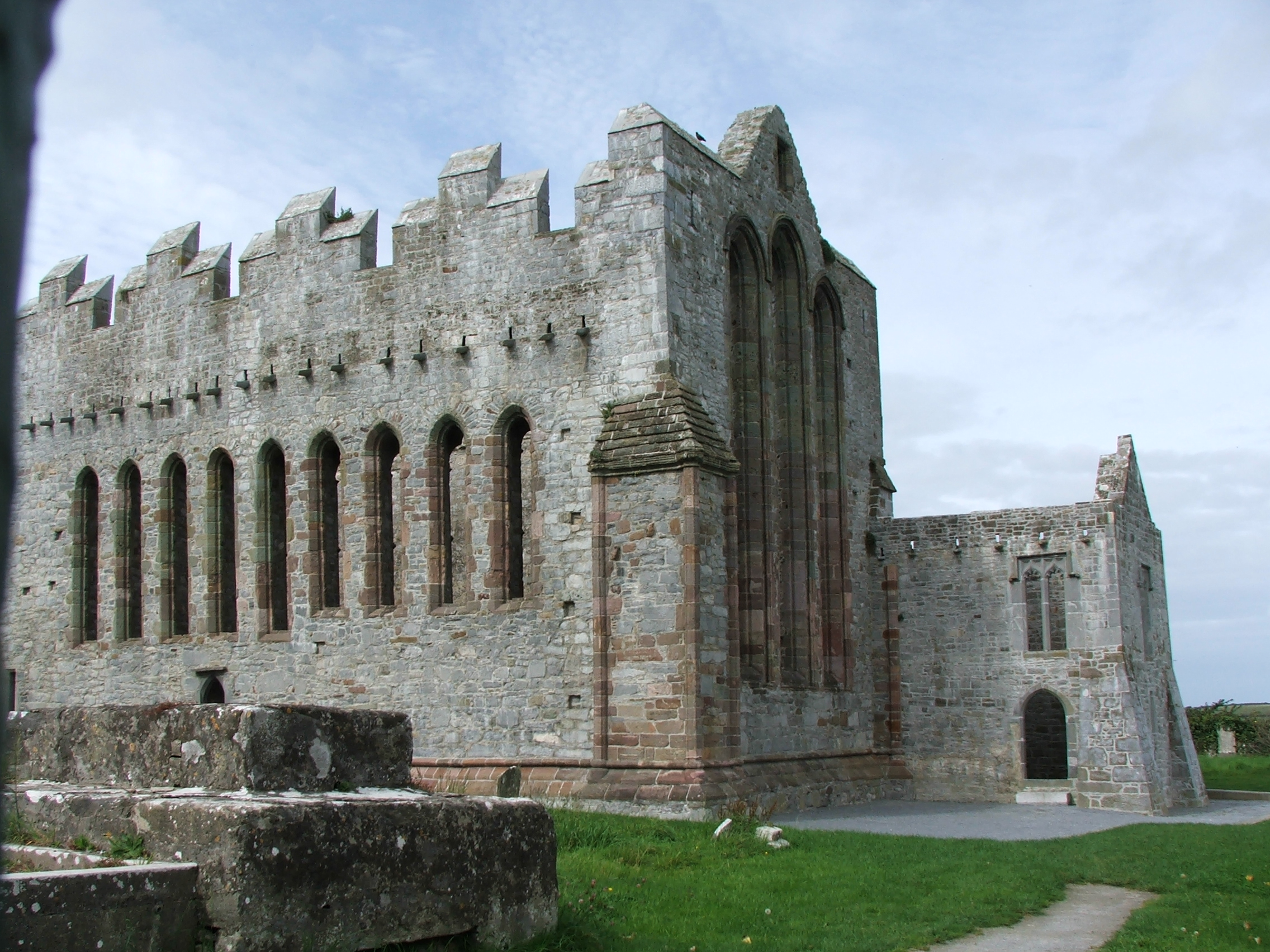 Ardfert Cathedral, Ardfert, County Kerry, Ireland Created by Kglavin Feb 2005